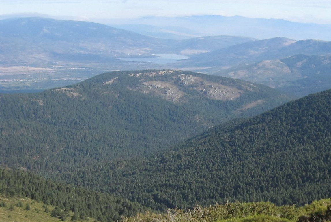 Cabeza Mediana seen from Valdemartín (Guadarrama mountain range, central Spain).